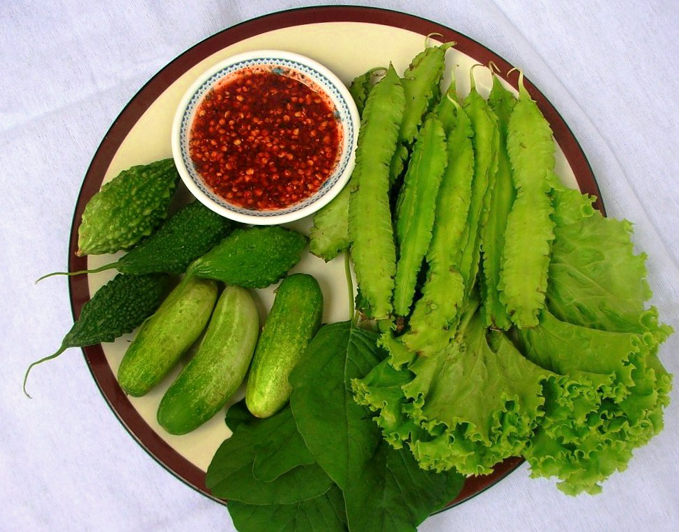 Nam phrik pla salat pon (น้ำพริกปลาสลาดป่น) is a variety of Nam phrik with minced roasted Pla salat (Notopterus notopterus) that is eaten along with raw vegetables. The one shown in the picture is from Khorat. The roasted ingredients give it its dark color.